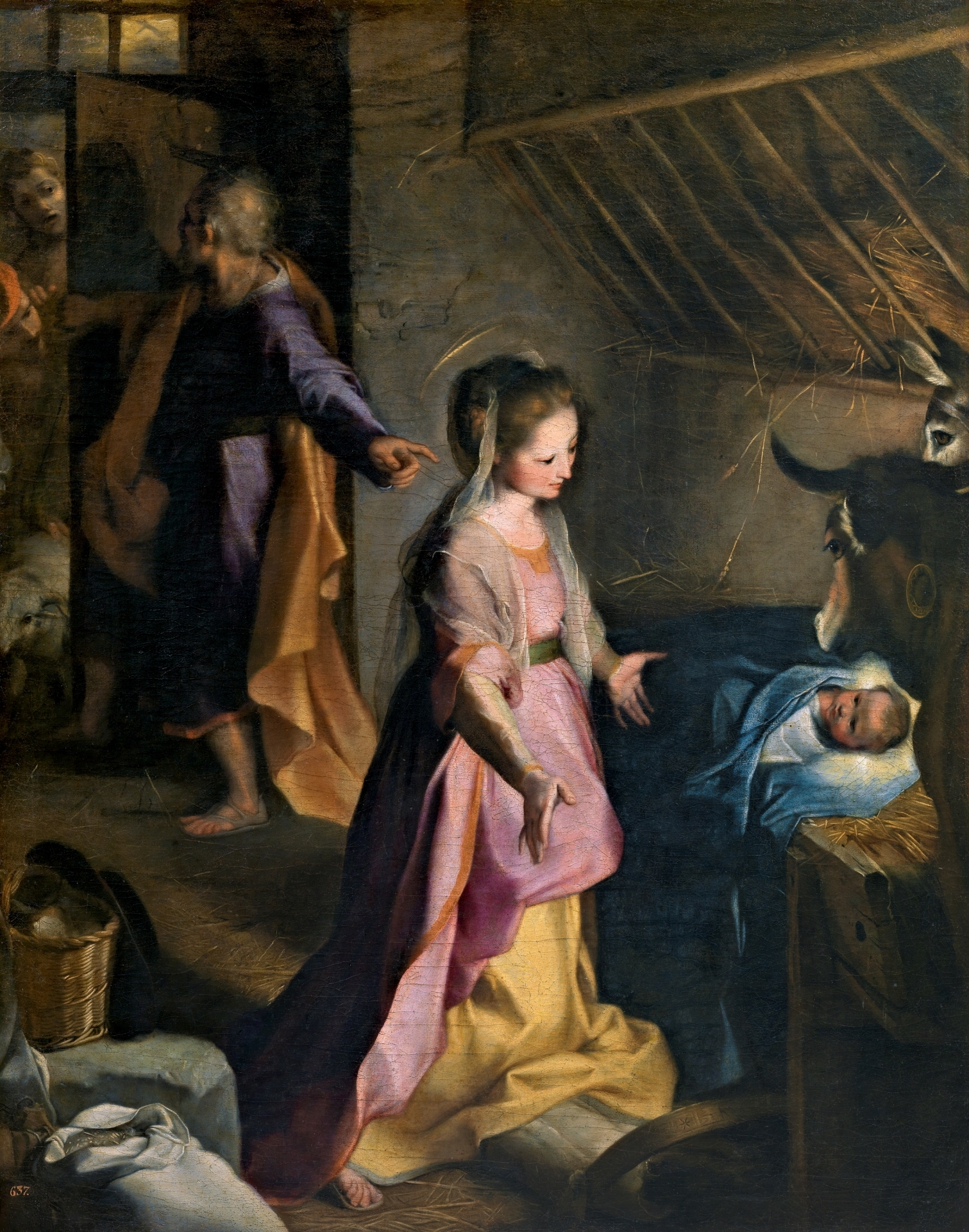 The Nativity, by Federico Barocci (1597) Oil on canvas, 134 x 105 cm Museo del Prado, inv. P000018